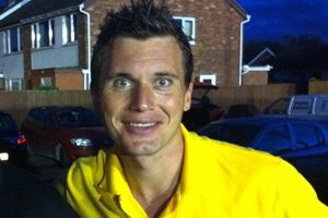 Photo of Andy Marshall taken by myself following the friendly game between Tamworth and Aston Villa on 4 August 2011 at The Lamb Ground in Tamworth.